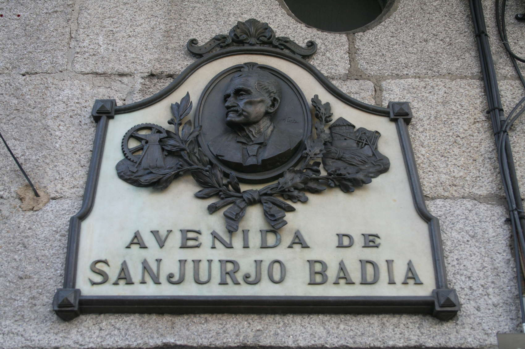 Sanjurjo Badía Street sign by Alejandro Curty